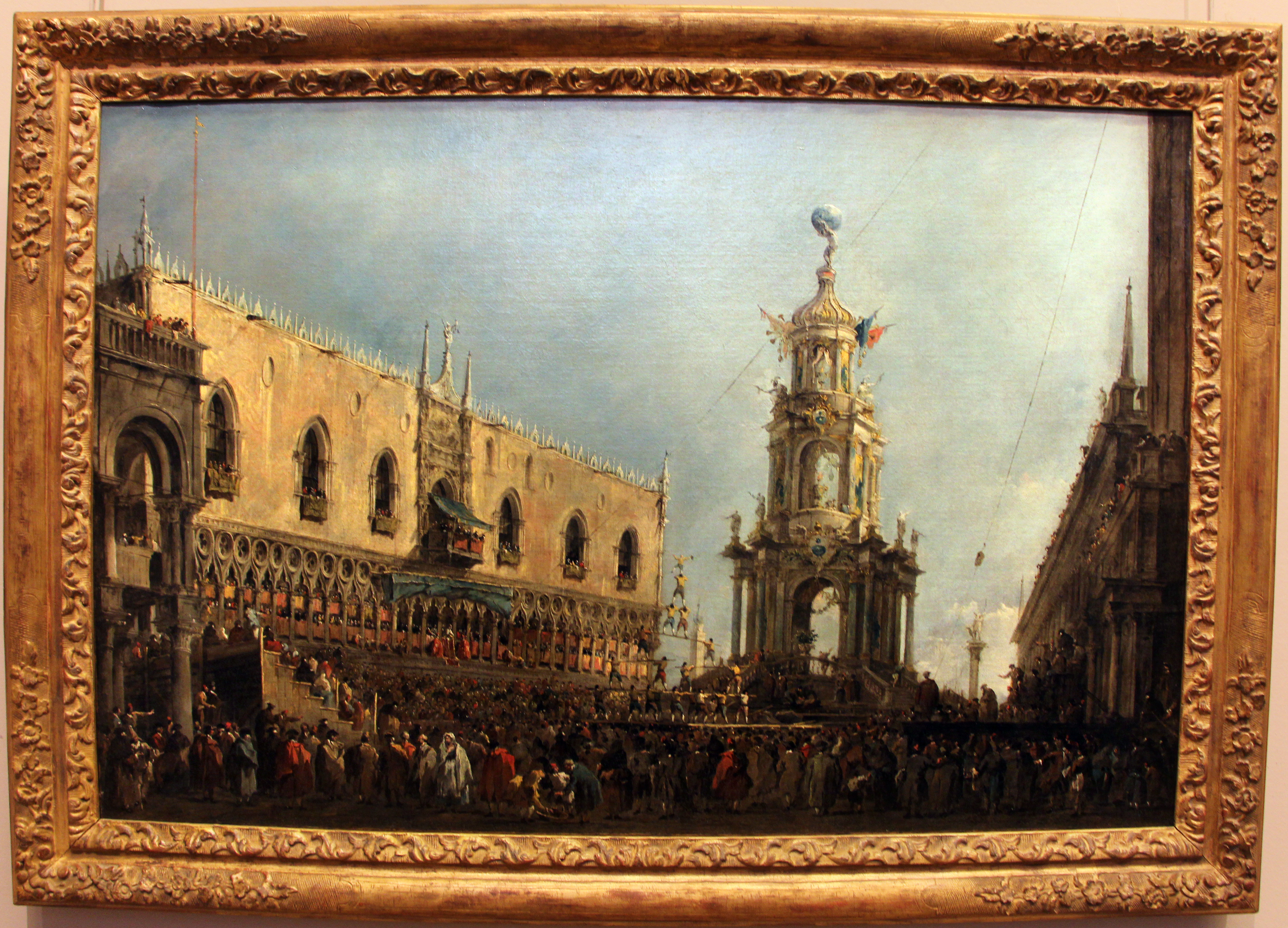 Italian paintings in the Louvre